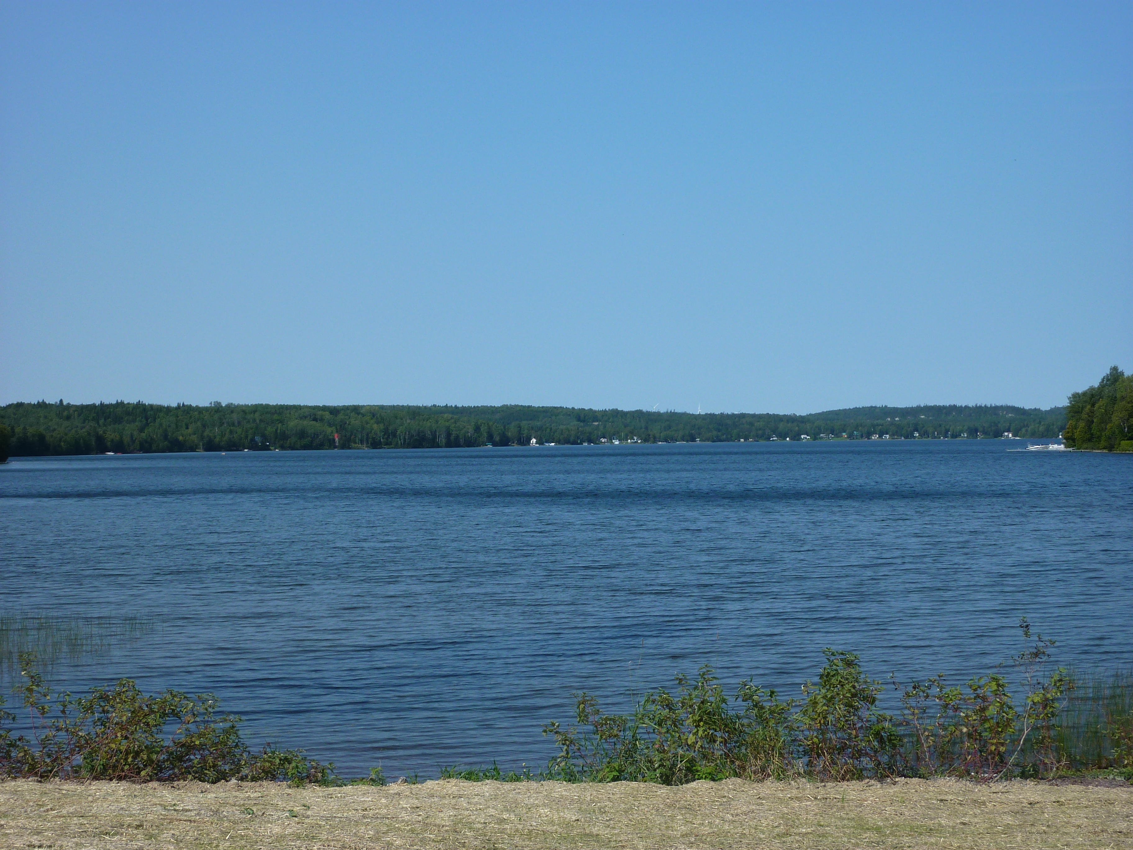 Portage Lake at Sainte-Paule, Qc